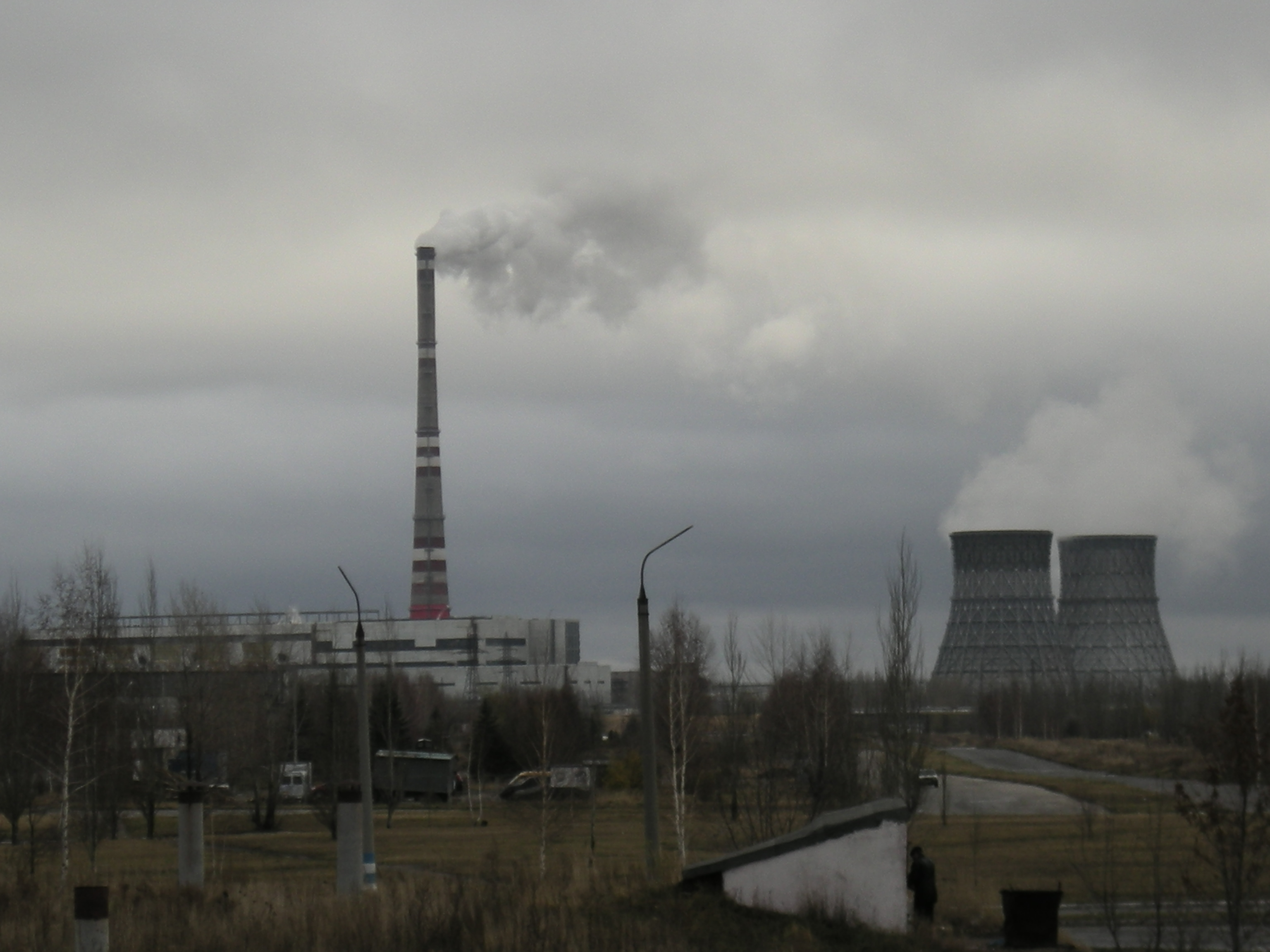 Gas power plant